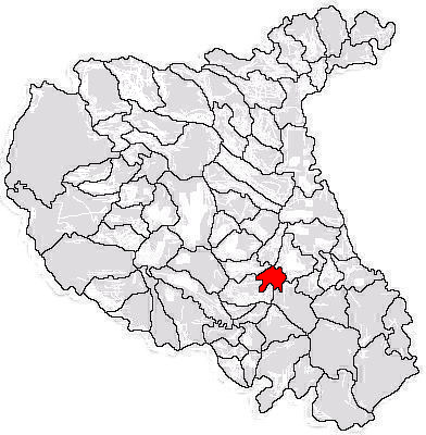 Map with limits of commune